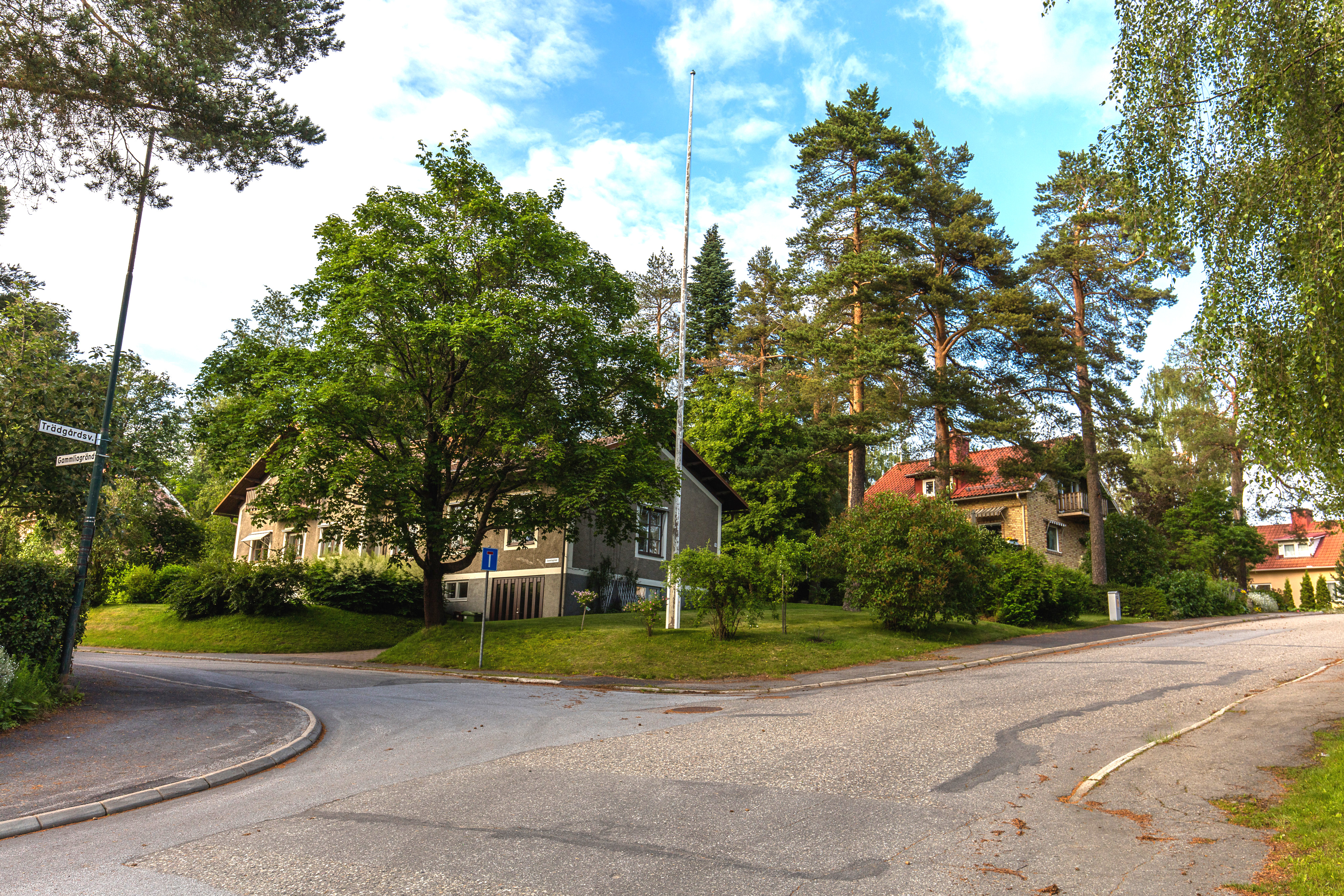 Trädgårdsvägen in the district of Fridhem, Umeå.